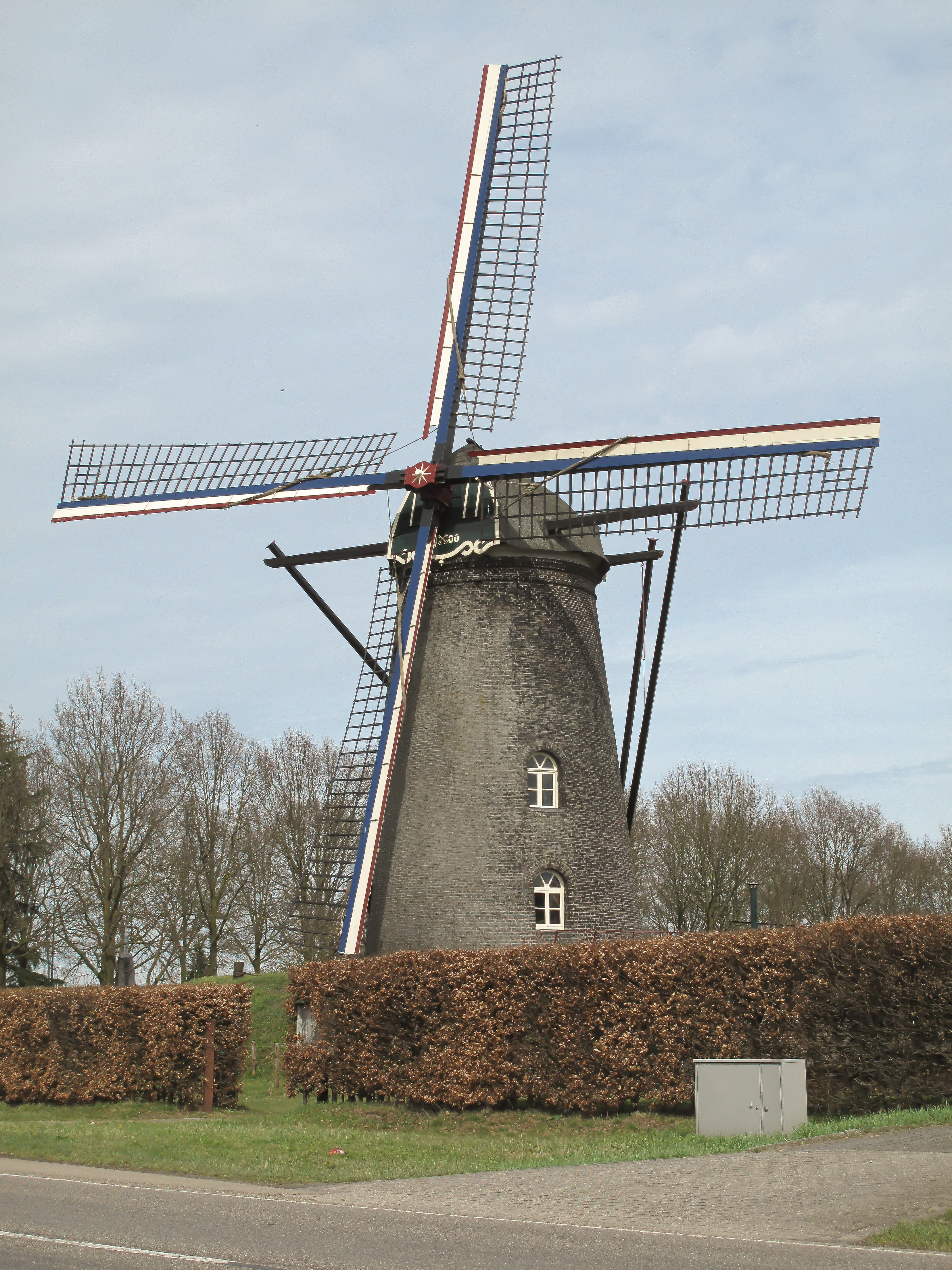 Nijken, windmill: de Sint Petrusmolen